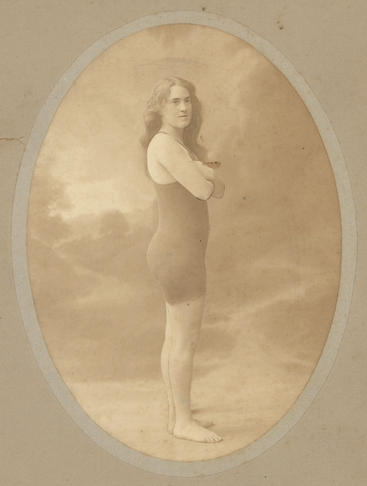 Fanny Durack, Stockholm Olympics, 1912, from original silver gelatin print, ca. 1925, by Florman, from State Library Of New South Wales, PXE 653 v.58 34